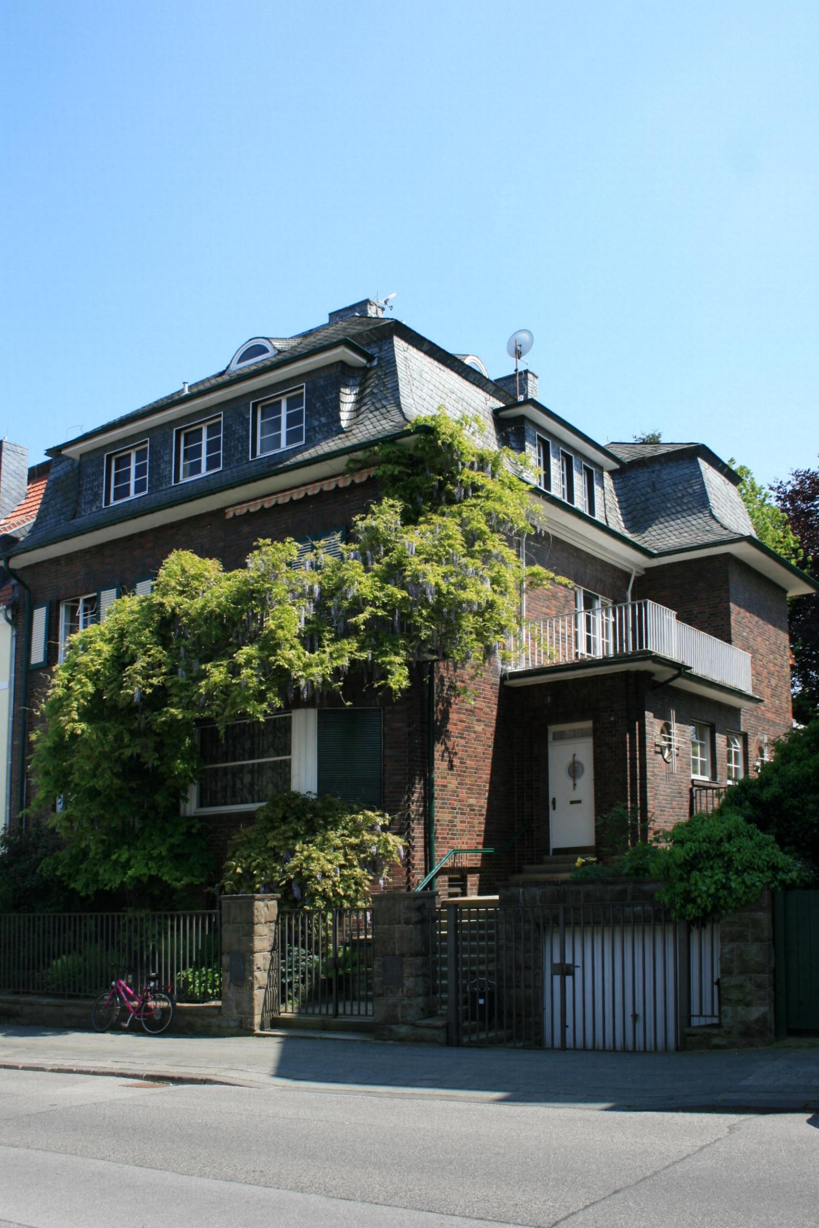 Cultural heritage monument No. Sch 023 in Mönchengladbach